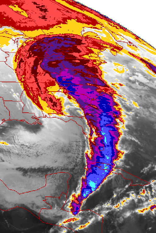 Satellite image by NASA of the 1993 North American Storm Complex on March 13, 1993 at 10:01 UTC.